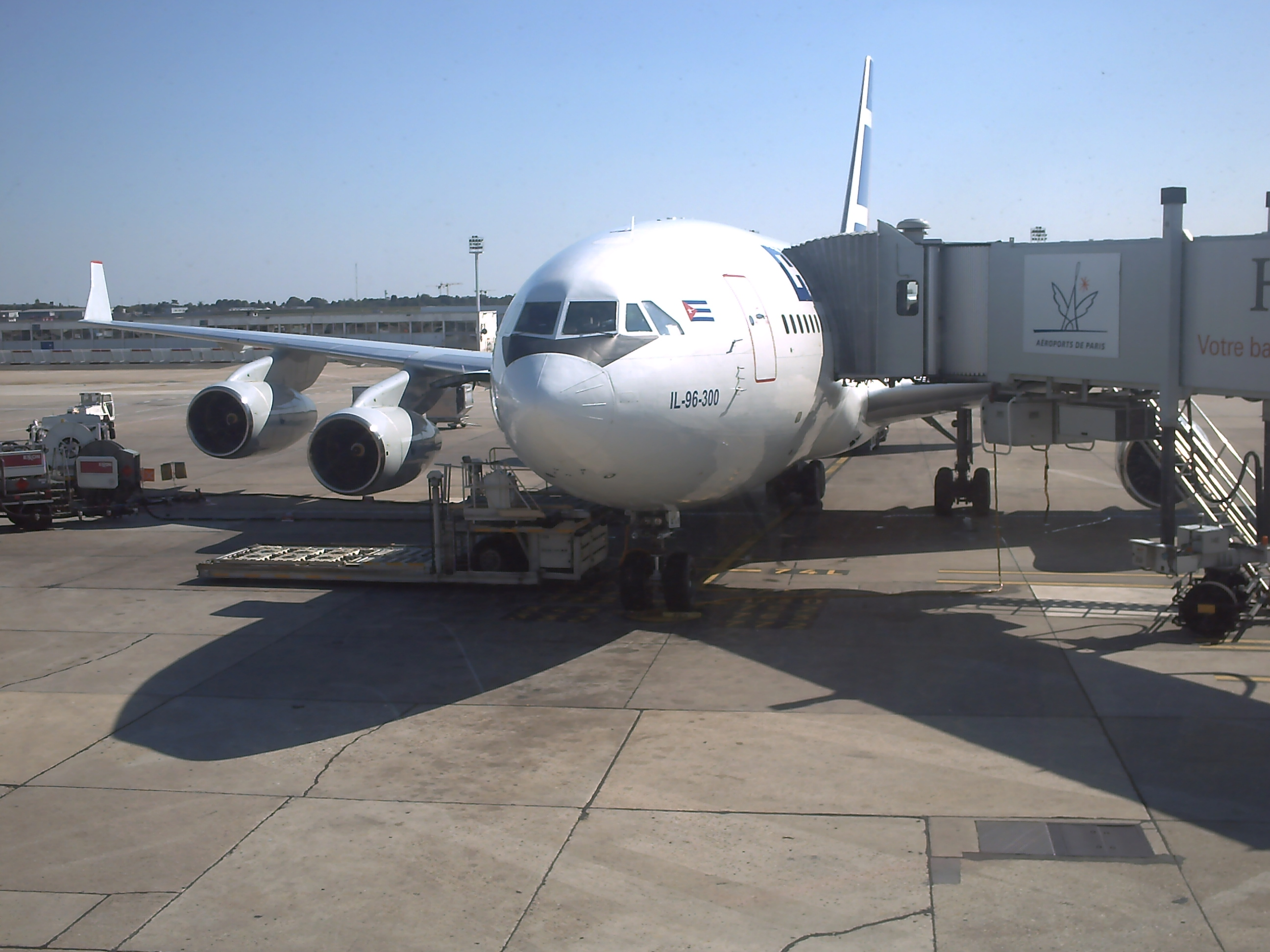 Photo prise par moi même à Paris Orly le 13/09/2008